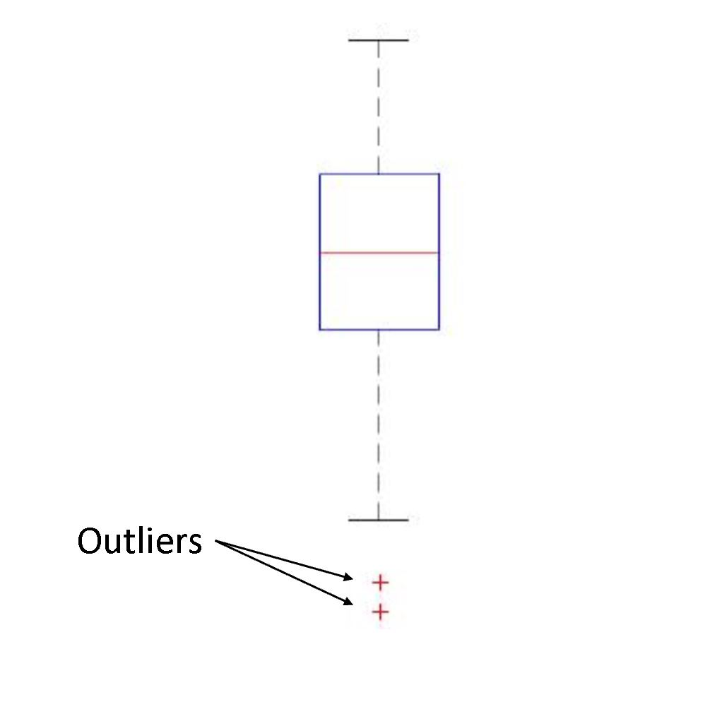 A boxplot with outliers shown as an example